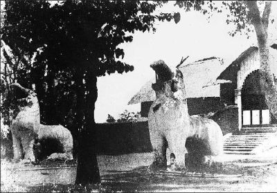 A file picture of the Kangla Sha, the sculptures of two dragons, which were destroyed in the Anglo-Manipur war of 1891.